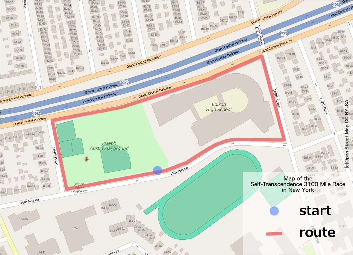 Overview map of "Self-Transcendence 3100 Mile Race".